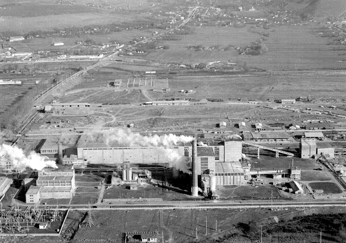 Valea Sucevei industrial platform in Burdujeni, during the communist period.